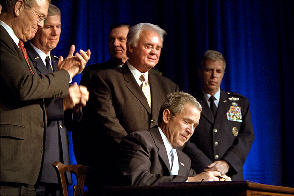 President George W. Bush signs a defense appropriations bill at the Pentagon, Jan., 10. Photographed with President Bush are Secretary of Defense Donald Rumsfeld (far left), Chairman of the Joint Chiefs of Staff General Richard Myers (center, left), House Armed Services Committee Chairman Rep. Bill Young (directly behind President Bush), Army Vice Chief of Staff Gen. John Keane (behind Mr. Young) and Air Force Vice Chief of Staff General Robert H. Foglesong (far right). White House photo by Paul Morse.